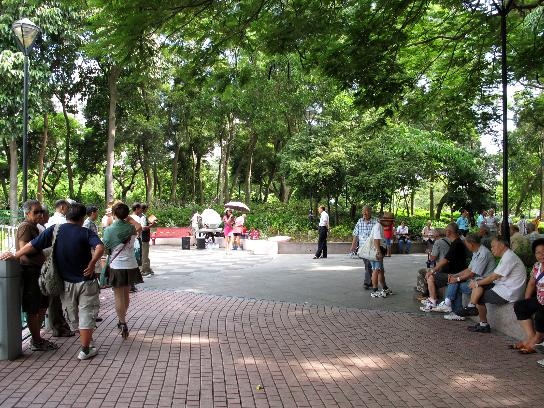 Tuen Mun Park Elderly people Performance